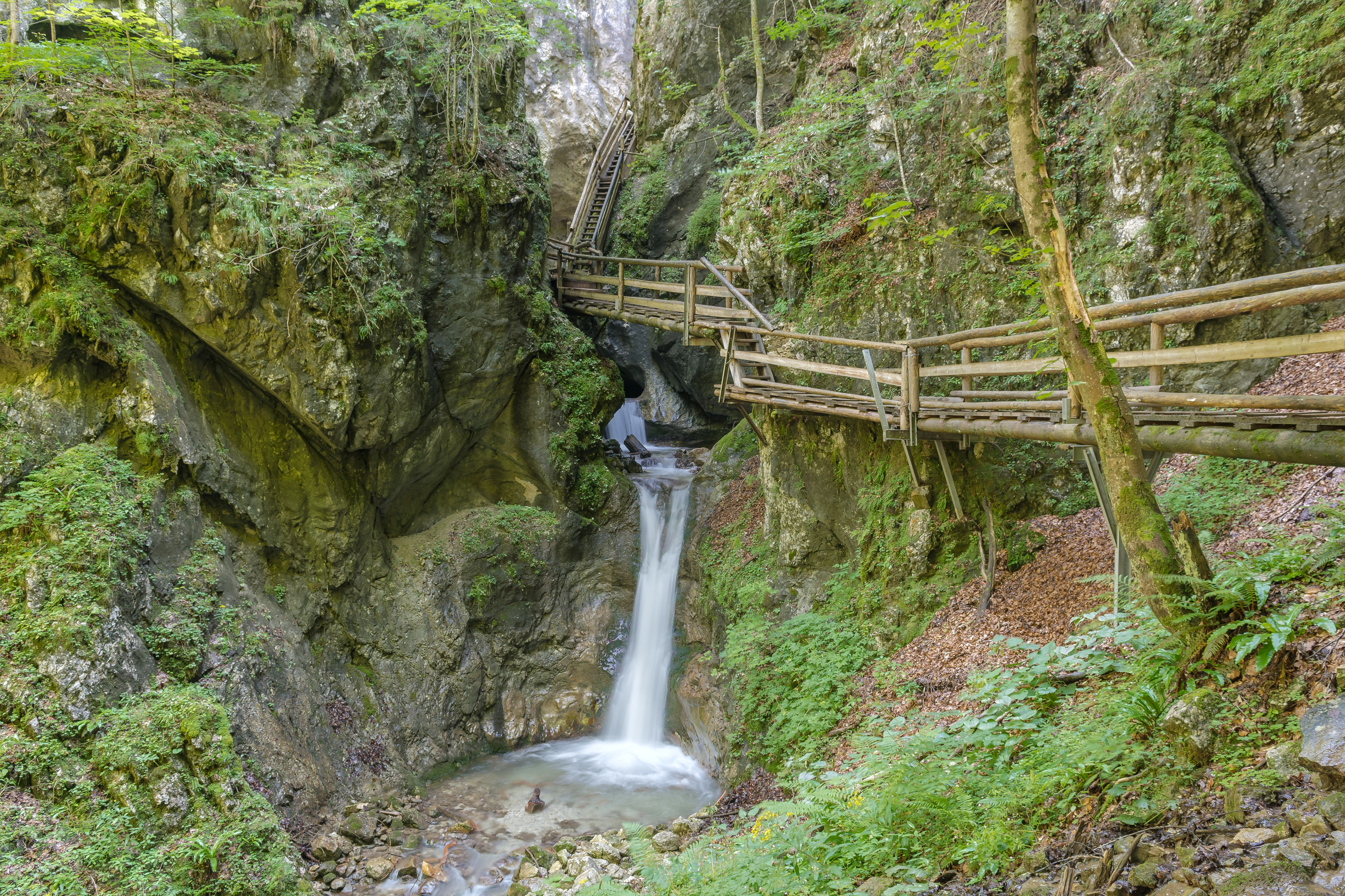 The ravine Dr.-Vogelgesang-Klamm is in the second place among the longest ravines in Austria which can be accessed by walkers. It is named after the medical practitioner Dr. Vogelgesang who was the initiator of erection of the pedestrian bridges trough the ravine. This media shows the natural monument in Upper Austria with the ID nd181.